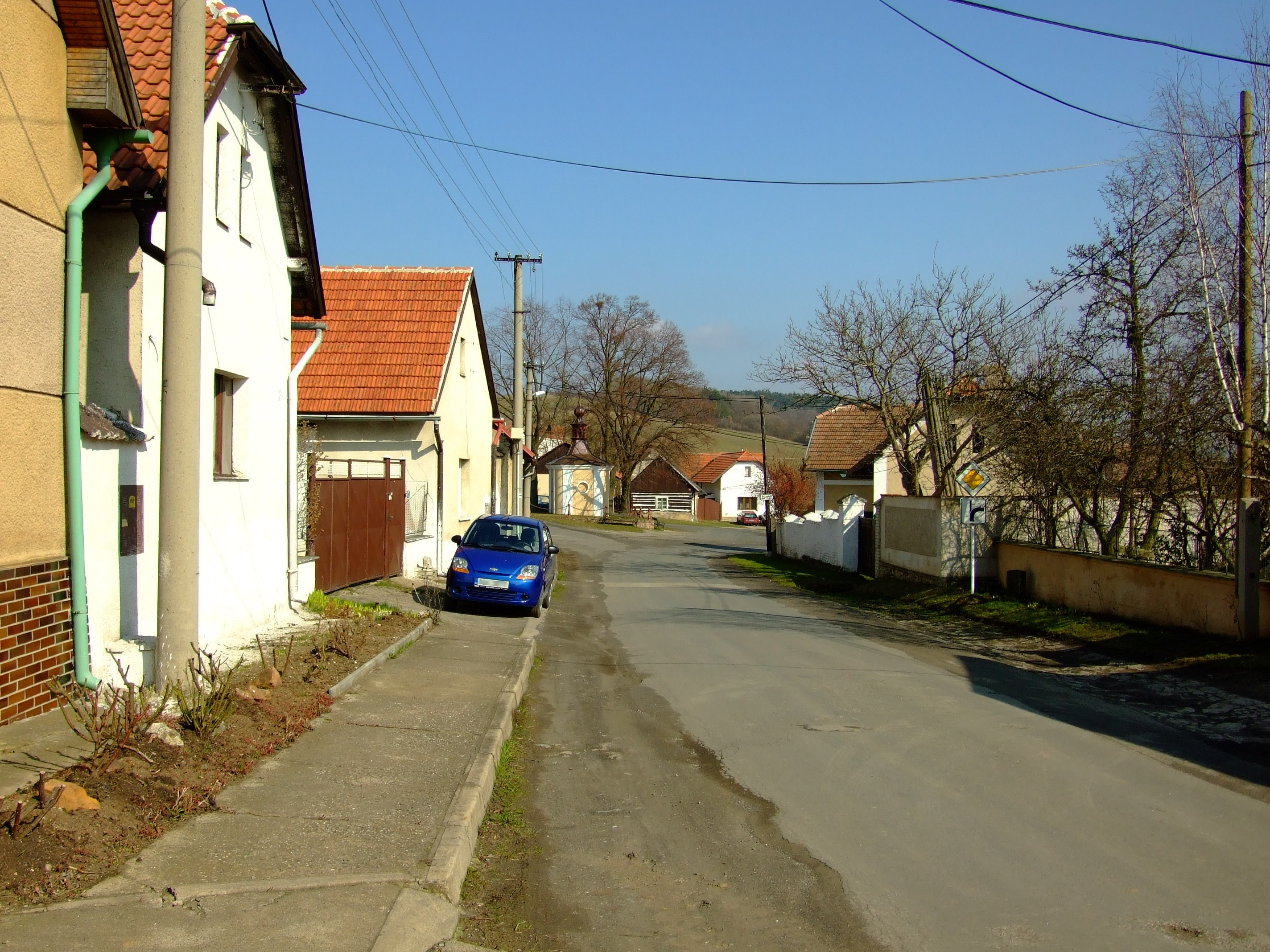 Town of Vinařice and its surrounding nature in Central Bohemian region, CZhelp